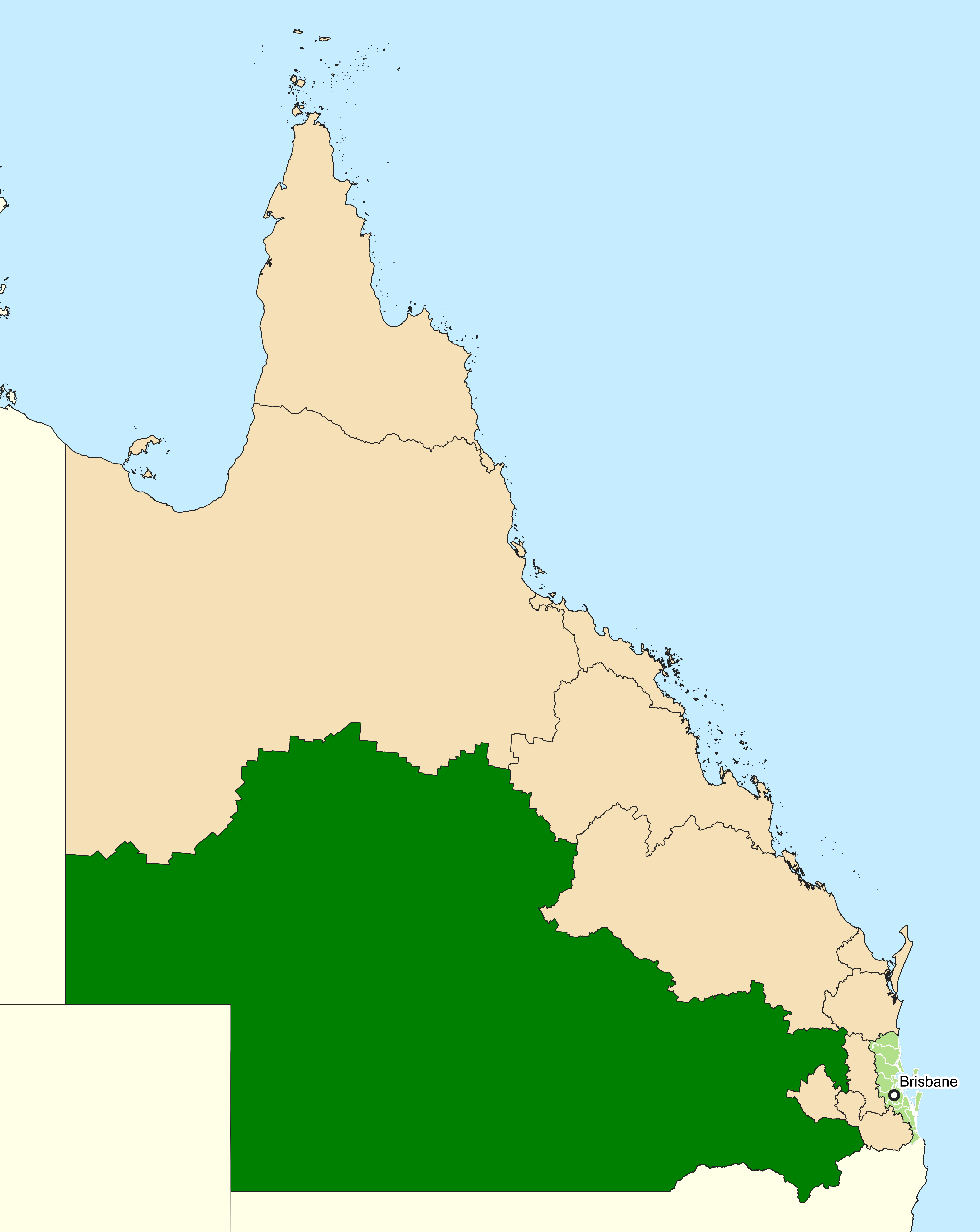 Location of the Australian federal electoral division of Maranoa (dark green) in Queensland as of the 2019 Australian federal election. Incorporates or developed using Administrative Boundaries ©PSMA Australia Limited licensed by the Commonwealth of Australia under Creative Commons Attribution 4.0 International licence (CC BY 4.0).